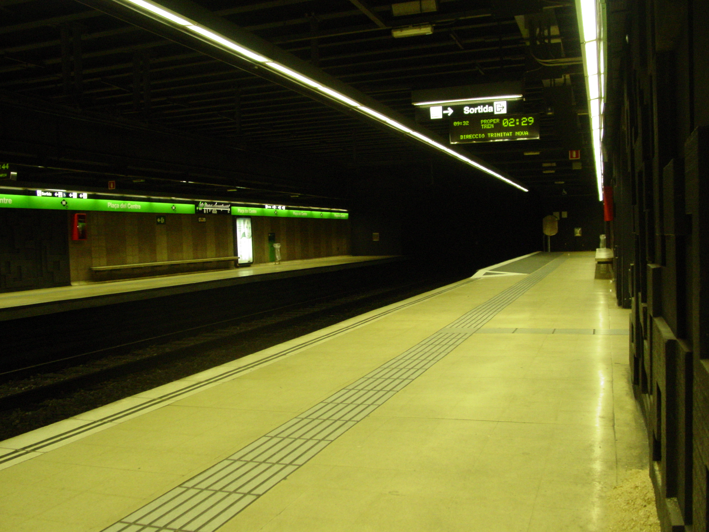 Platform view of Placa del Centre station, Barcelona Metro line 3. 4.9.2013